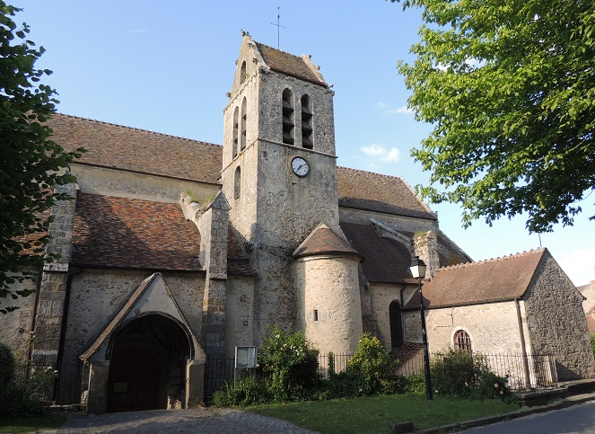 Saint-Aubin church in Villeconin with a porch with an arcade, the bell tower, another little tower and a chapel under tree leaves